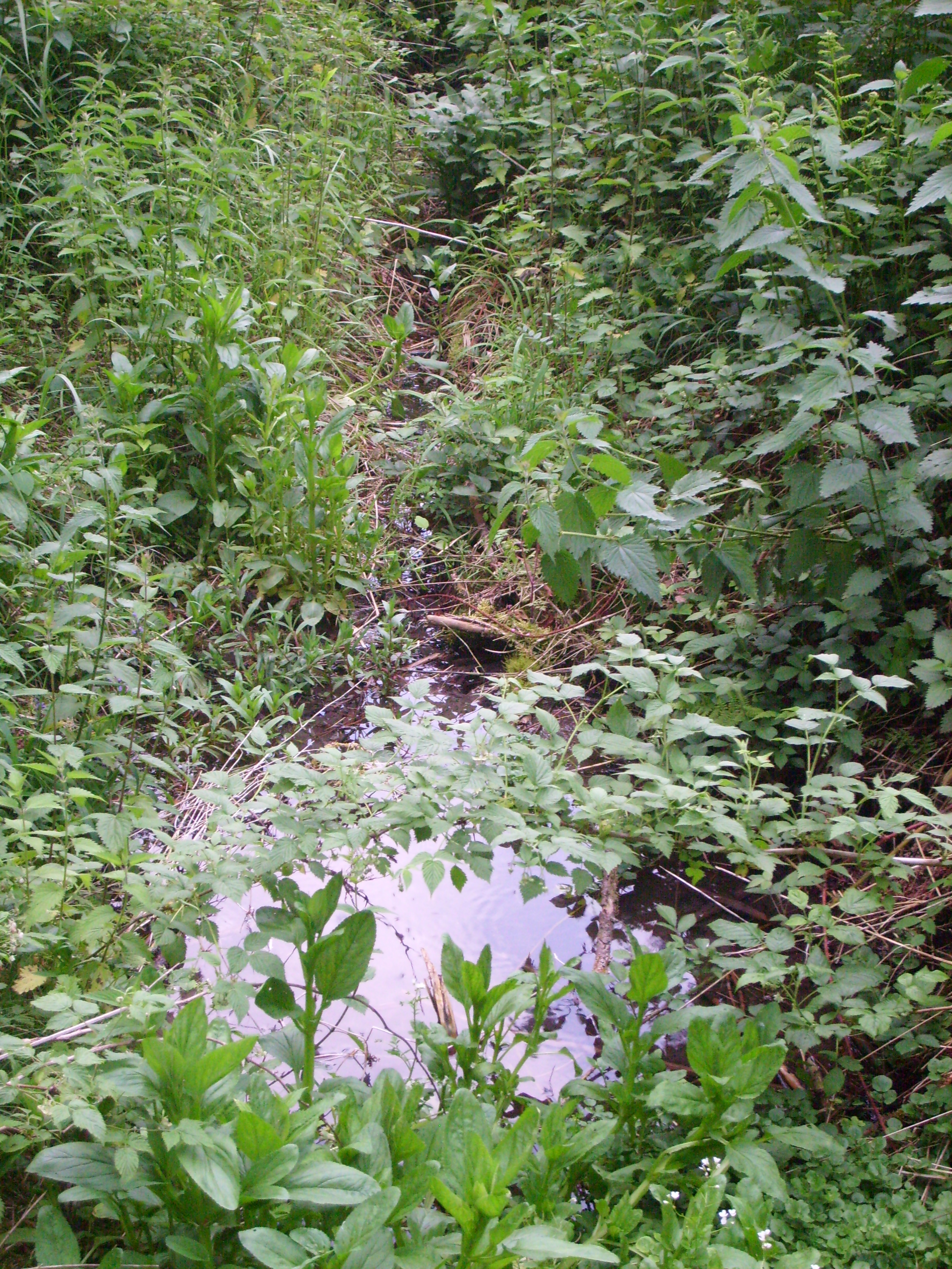 Spring of the Lautenbach, a stream in Meßkirch near the border of Krauchenwies, Germany.